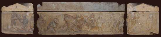 St. Erasmus' sarcophagus, at the Catedral of Gaeta. Ancient Roman casket, with the remains of St. Erasmus and other saints.